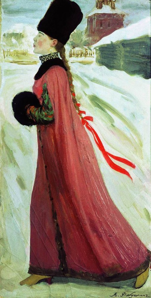 Moscow Girl of the XVII century